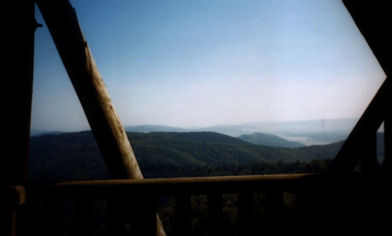 View of the Vogler hills, Lower Saxony, Germany, from the Ebersnacken Tower